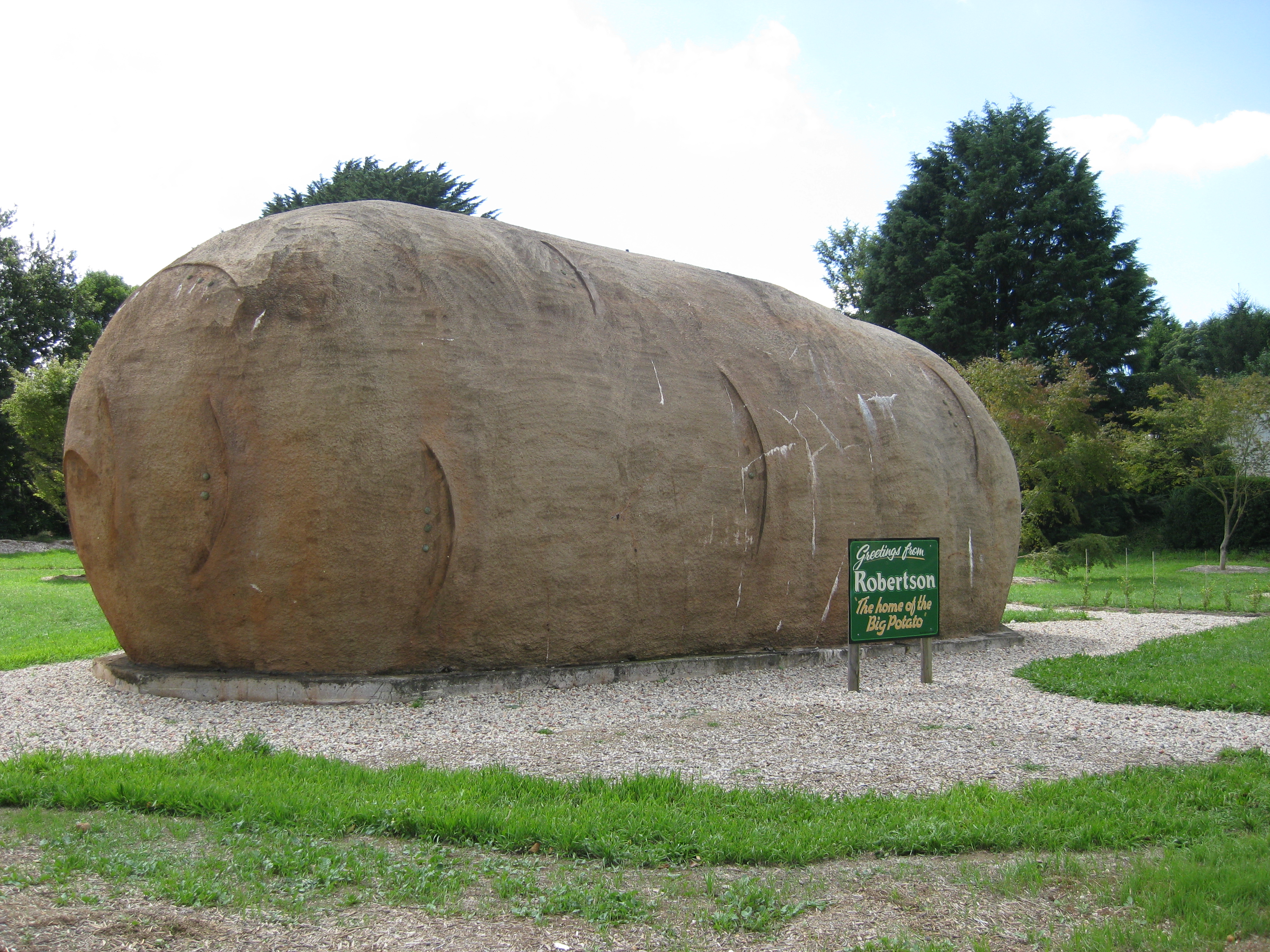 Big Potato in Robertson, New South Wales.